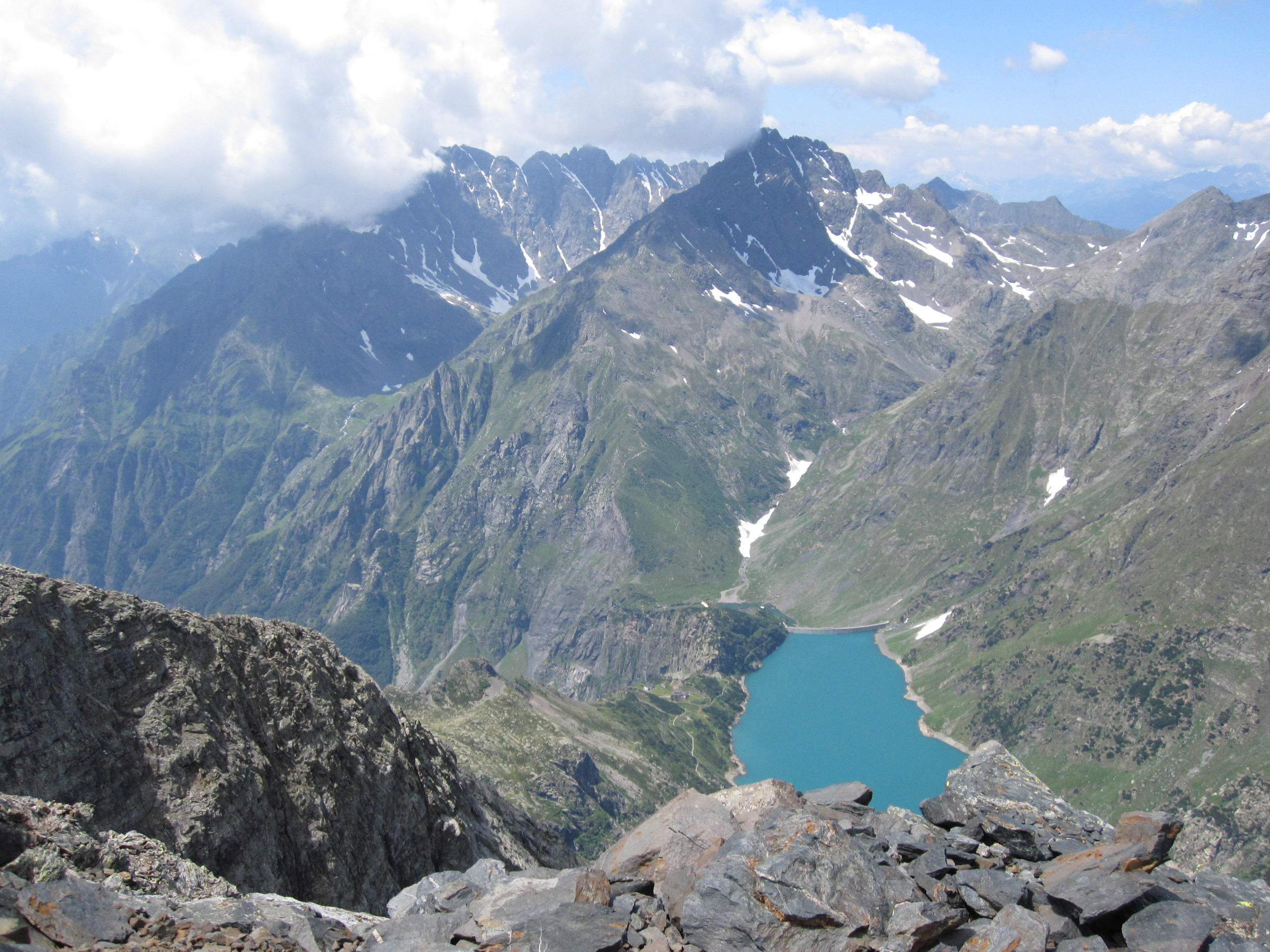 Pizzo di Coca, Orobie Alps. Lago del Barbellino. Heading west.